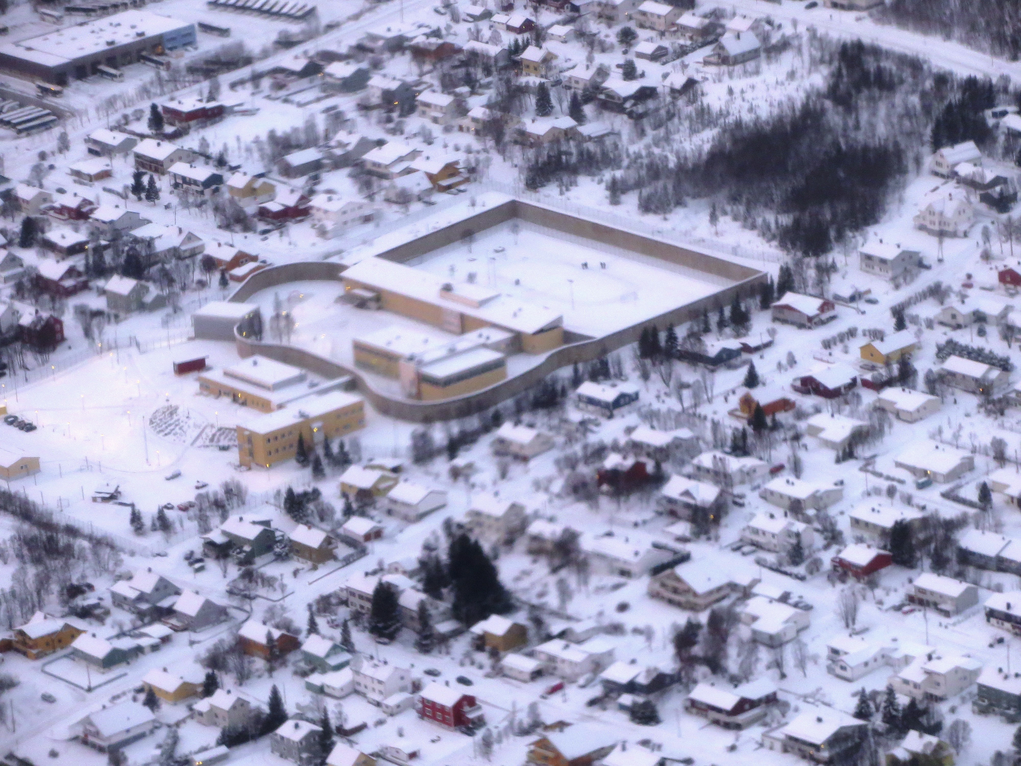 Aerial view of the Breivika bay, with the Tromsø Prison, Tromsø - Norway. Seen from the east towards west.